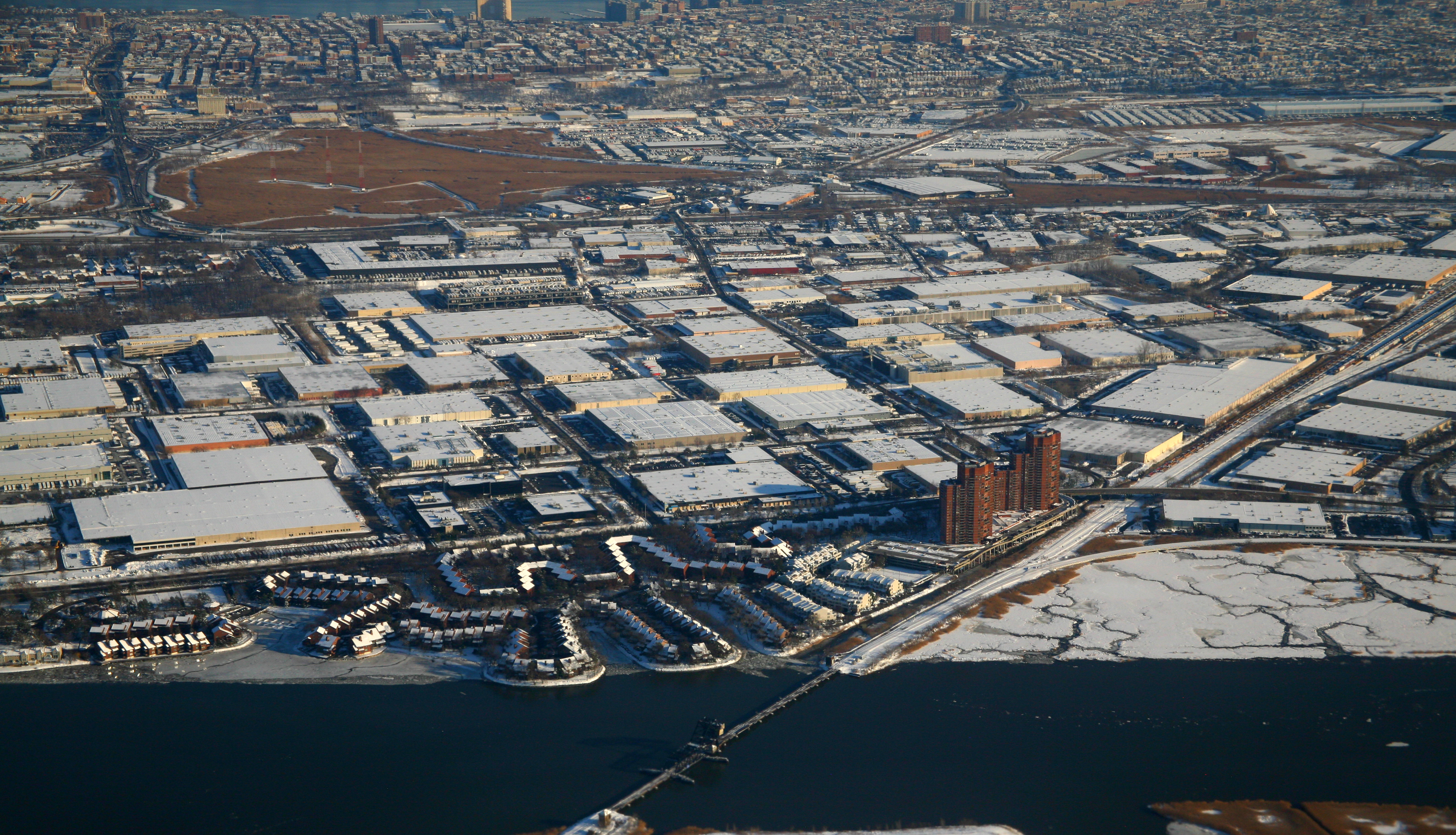 Upper Hack Lift on Hackensack River looking East to Harmon Cove and Secaucus outlets/distribution center